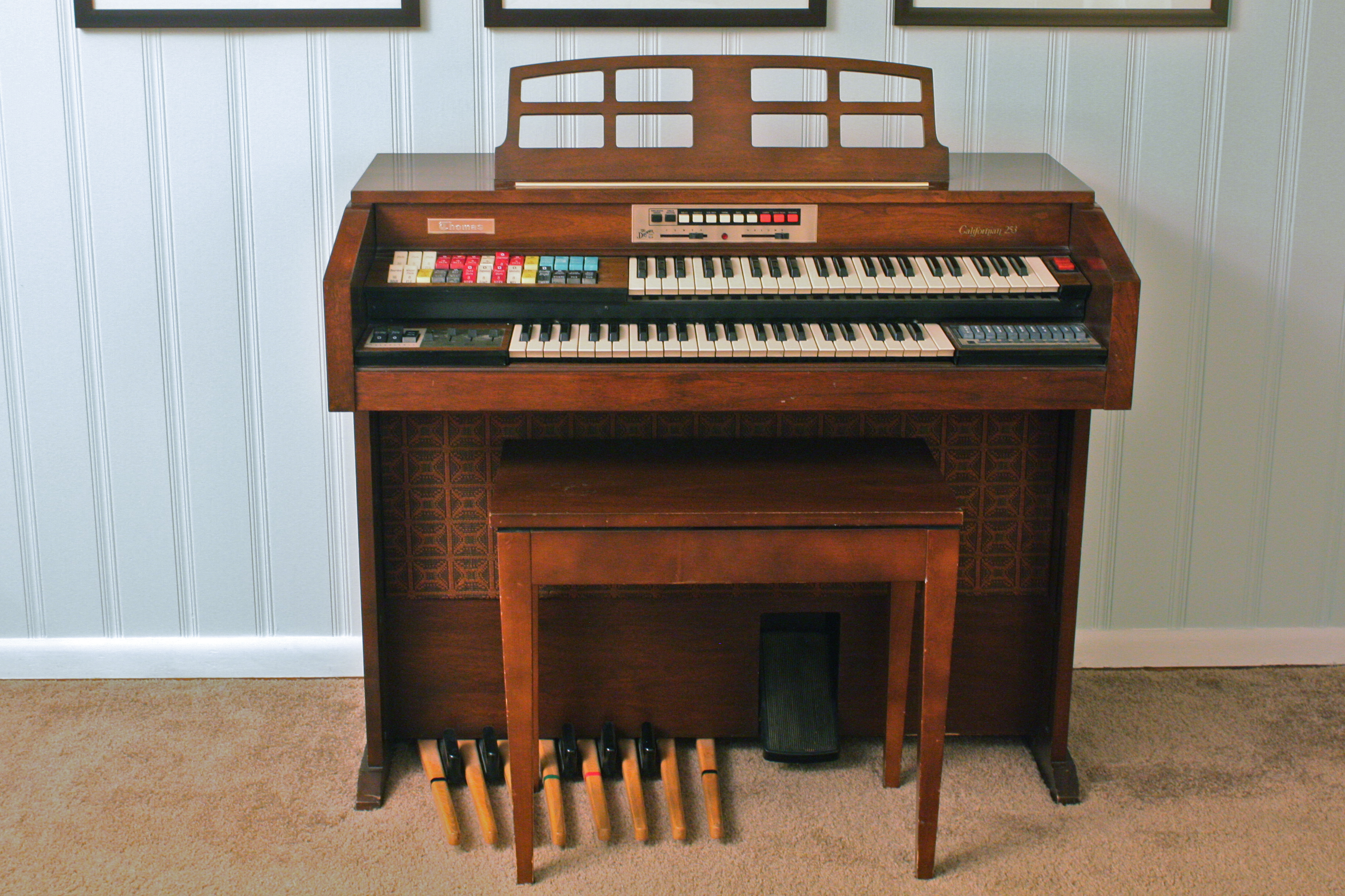 Thomas Californian 253 FREE. Pick up from Northwest Indiana. I really want this to find a new home as it's only collecting dust here.